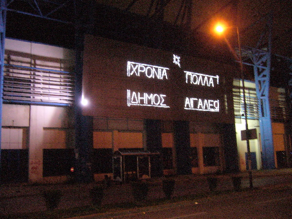 Egaleo stadium in 2009